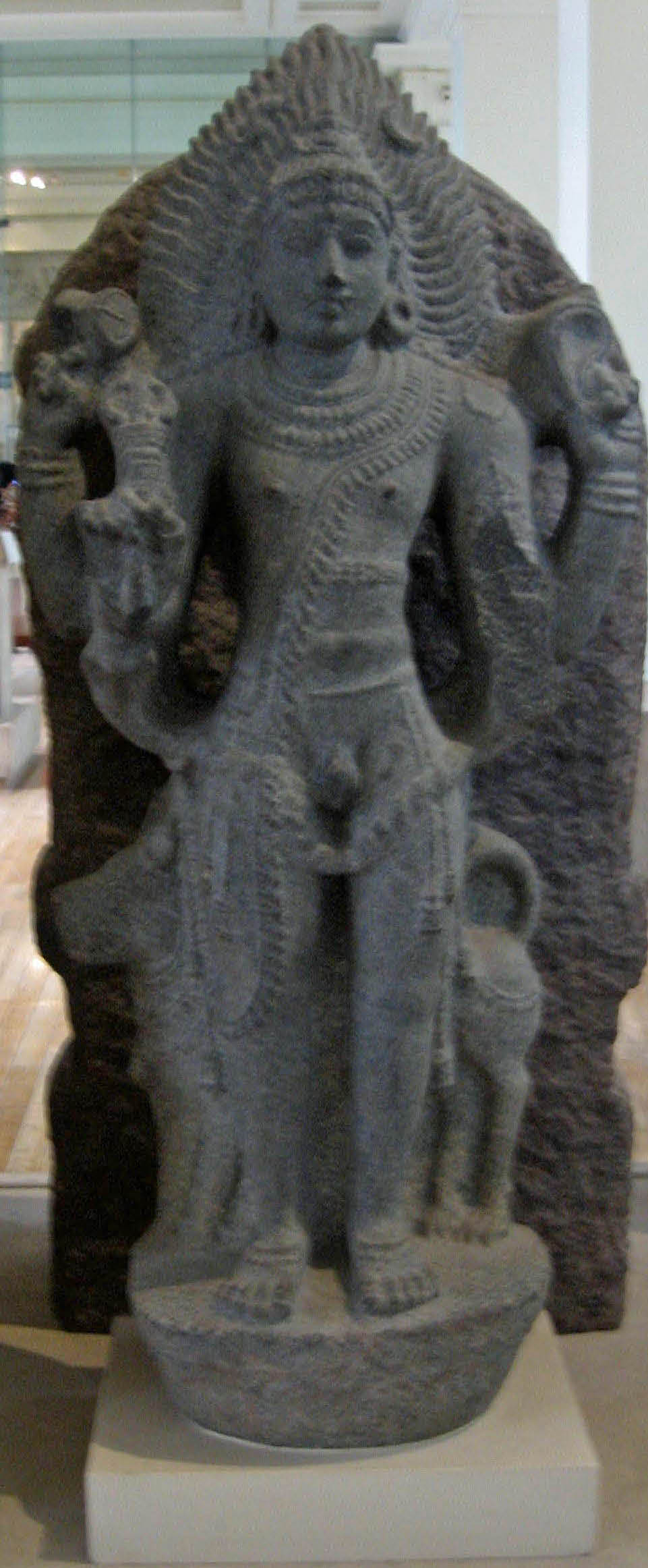 Photo of Bhairav taken at the British Museum